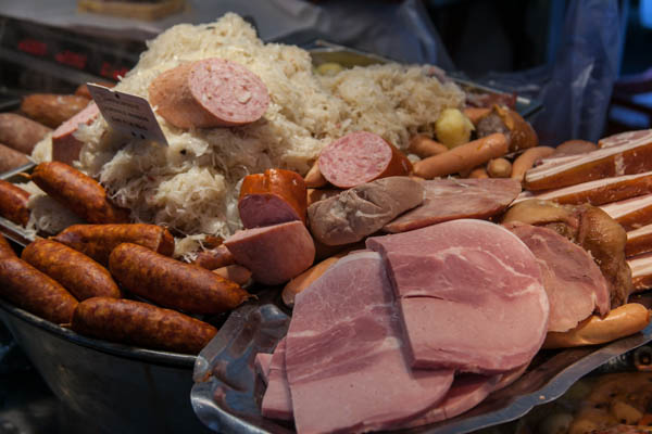 There is no way away around it - the food in Paris is incredible. On the day my old friends Francie and Bernadette came over from Belgium we did a long marching tour of Paris - and went through an open air market - my God - the smells and sights - it was sensory overload - great food everywhere. We sampled some it - oo la la - but it was just around closing time and they were putting everything away or I could have lingered there for hours. Who wants to go sightseeing when there is good food to be had?